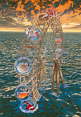 The painting "Fish Ferris Wheel" is the work of Victor Stabin and is part of his "Turtle Series" of paintings.